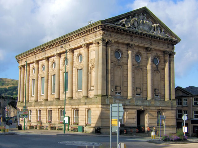 Todmorden Town Hall Todmorden, Calderdale in West Yorkshire